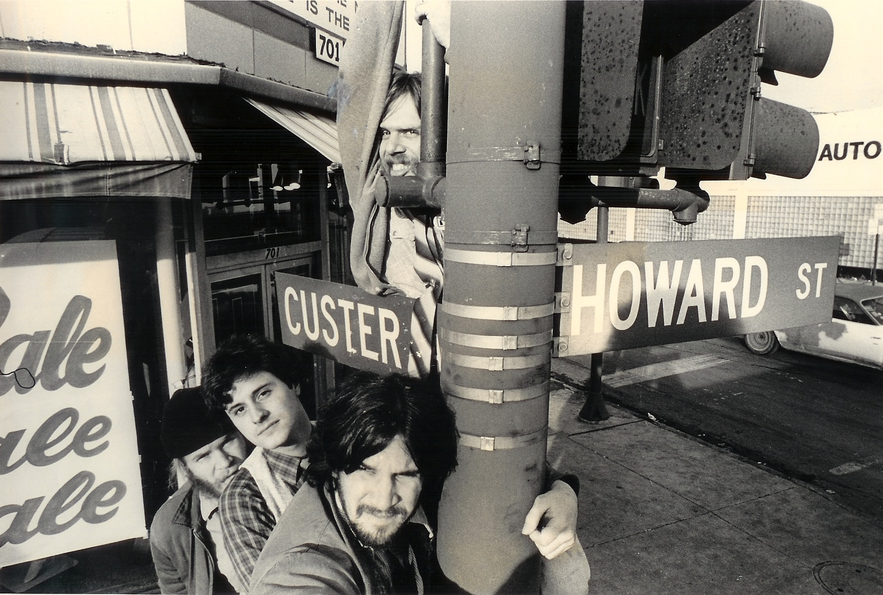 "Thrills & Glory" cast photo: Rush Pearson, Gary Kroeger, Paul Barrosse and Reid Branson (above) 1981 [apparently 701 W. Howard St., NW corner at Custer Street, Evanston, Illinois, across the street from the city of Chicago]